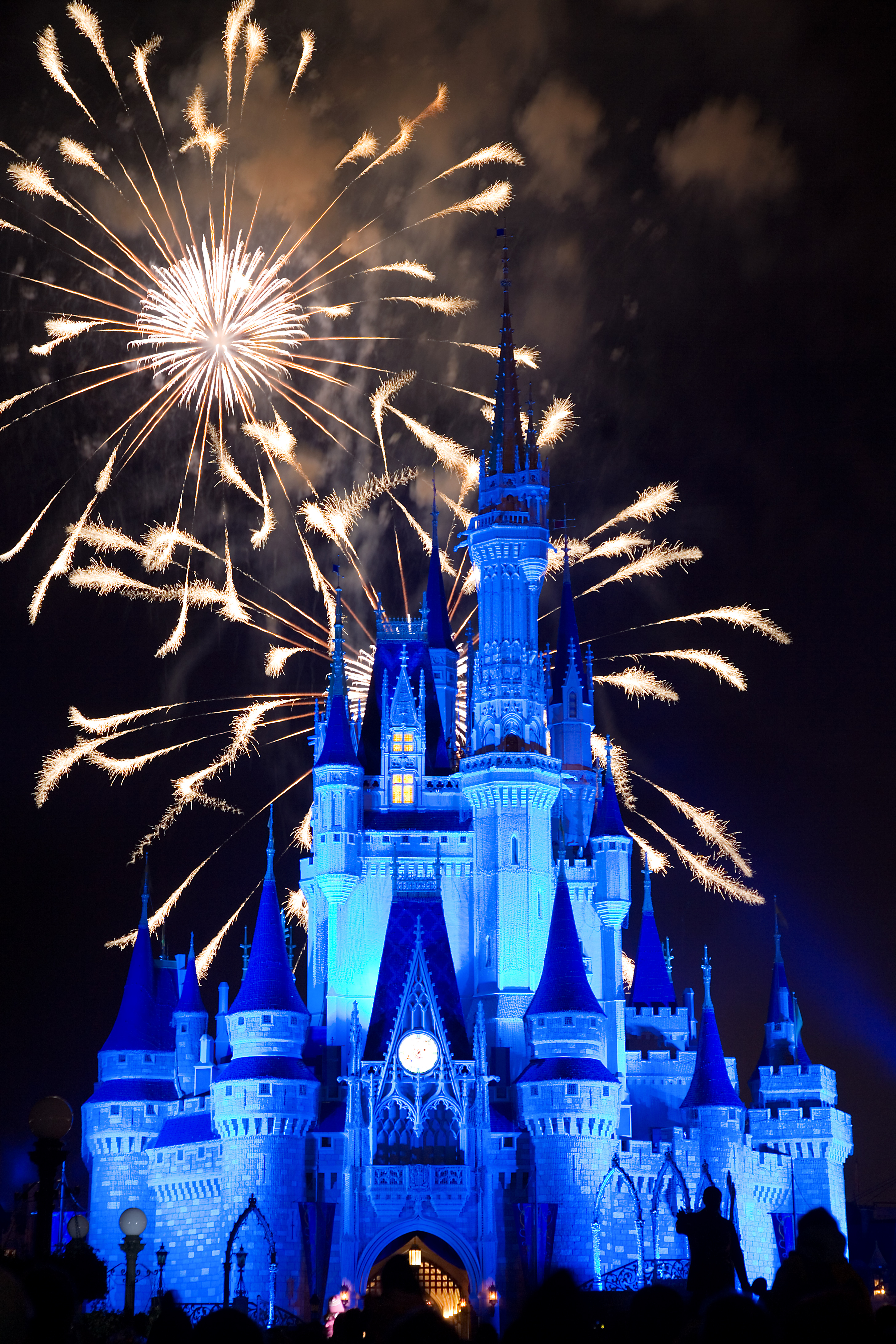 Fireworks show over Cinderella Castle at closing hour. Disneyworld, Orlando 2010